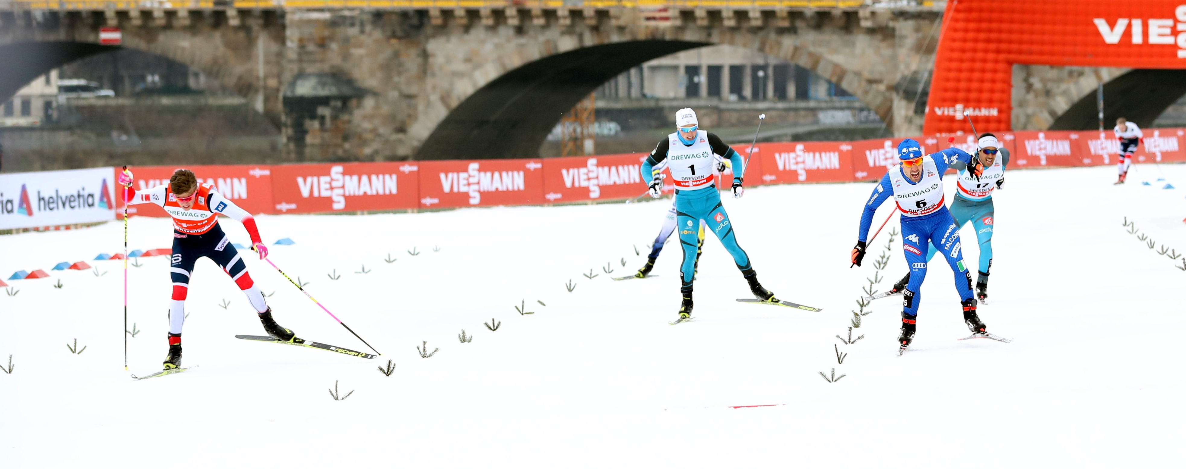 Mens Final at the FIS Cross-Country World Cup Dresden 2018: Federico Pellegrino, Johannes Høsflot Klæbo, Lucas Chanavat, Richard Jouve, Emil Jönsson, Even Northug